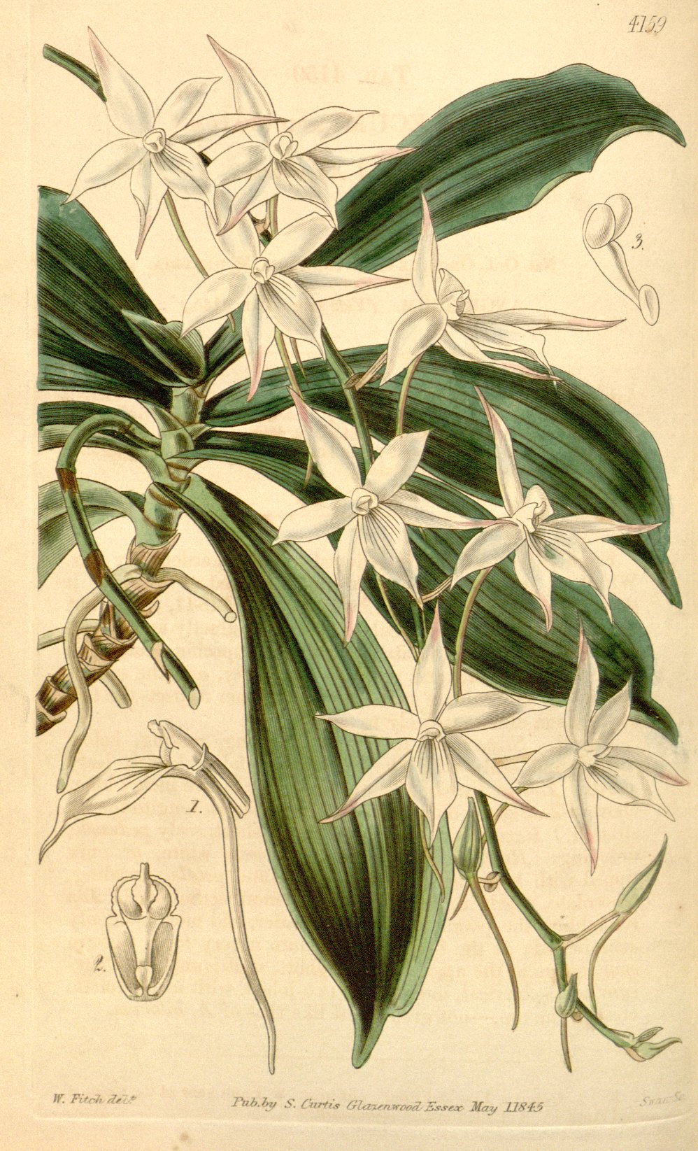 Illustration of Aerangis biloba (as syn. Angraecum apiculatum)